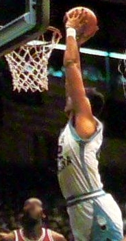 North Carolina Tar Heels junior basketball player Brad Daugherty (basketball) slam dunking the ball during a January 9, 1985 home game against University of Maryland.